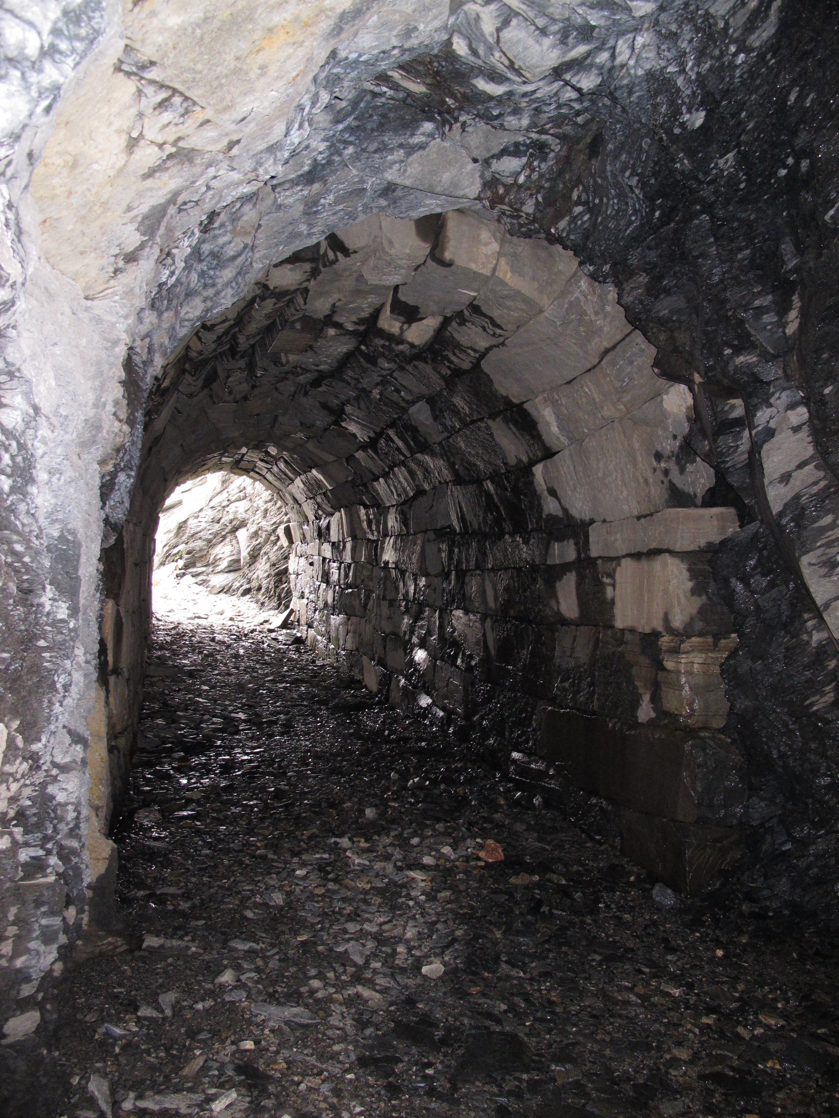 From inside tunnell showing transition from slate to brick walled area.